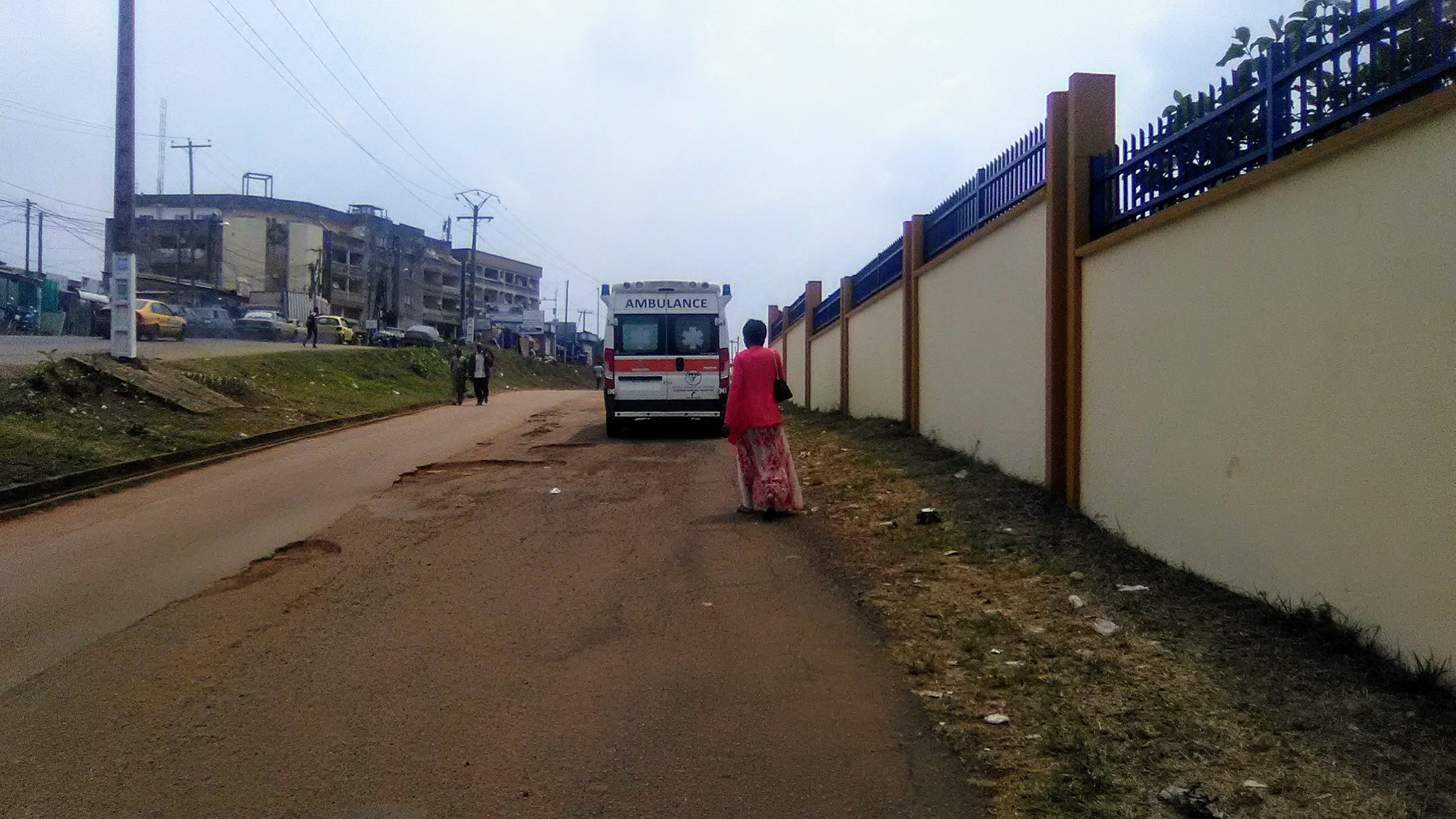 This is an image with the theme "Africa on the Move or Transport" from: Cameroon